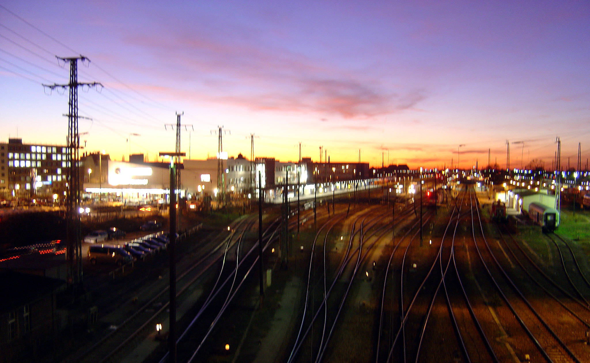 View from Train/Railway Station Cottbus, Brandeburg, Germany